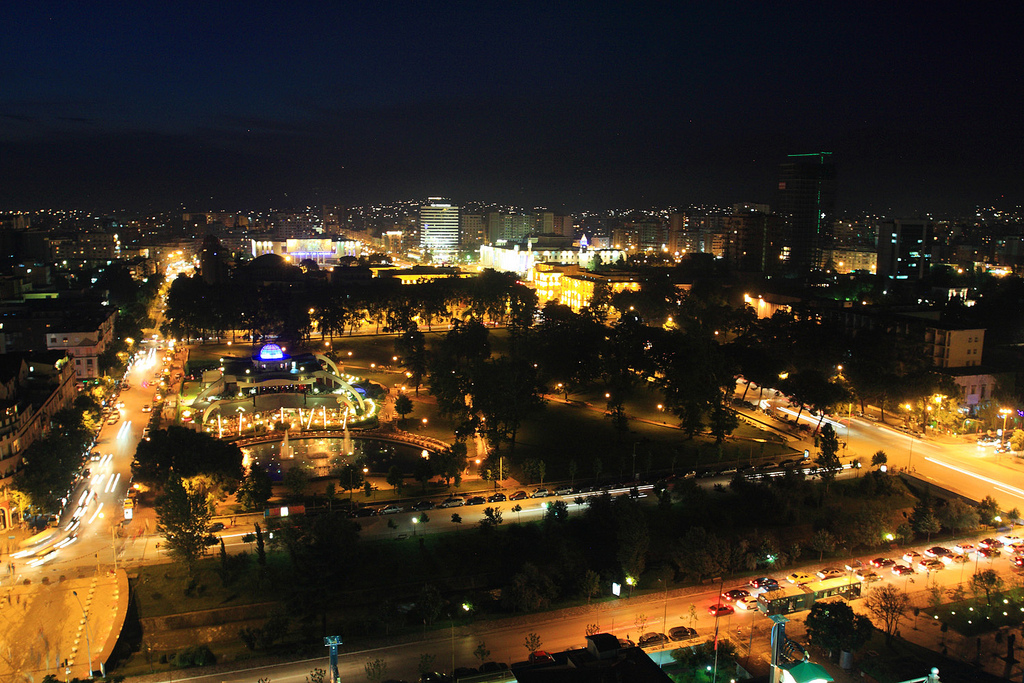 View of Tirana by Night